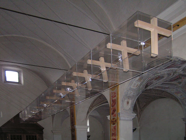 Artist :Gianfredo Camesi Title : «Via Crucis», Church SS. Quirico e Giulitta, Melide, Switzerland. 1995.